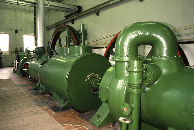 Cydweli Industrial Museum In situ Cole, Marchent & Morley tandem compound engine that drove the cold rolls. This site is the best, albeit incomplete, example of a traditional hand tinplate works. There is good display material in the main museum building. Following the scraping of the Bramley engine there are just two engines of this type, by this builder still extant in England.